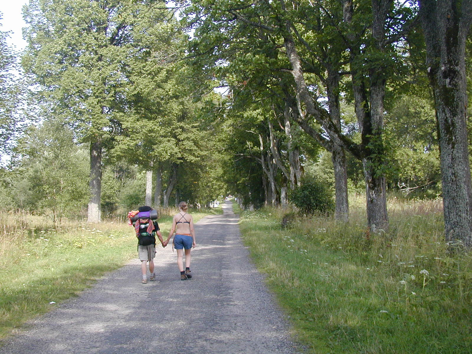 Former main street in Pohoří na Šumavě